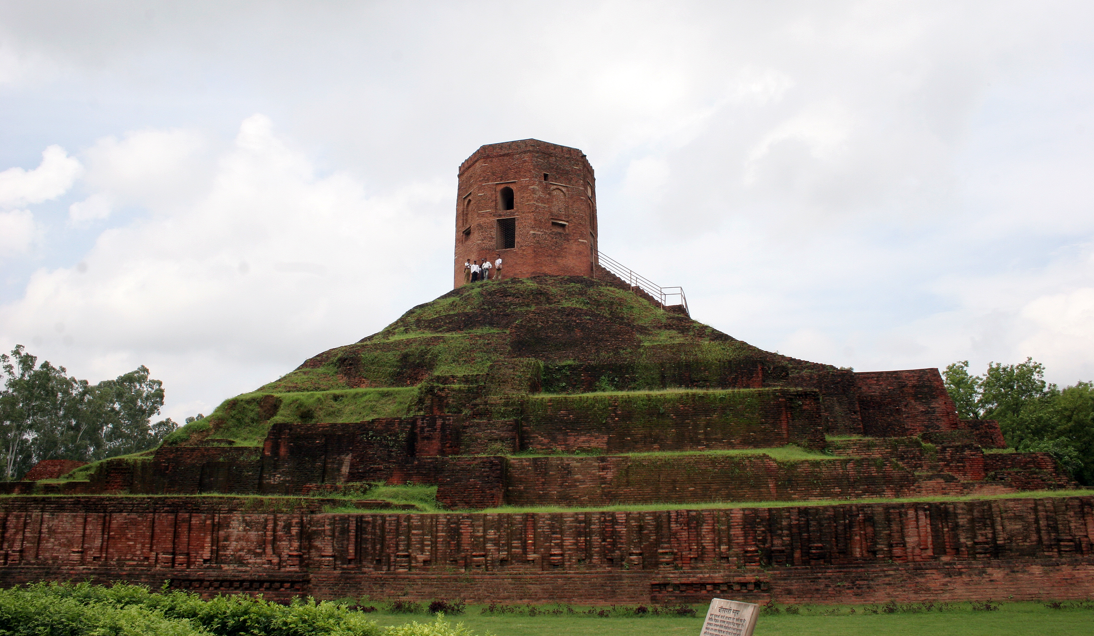 Chaukhandi Stupa is an important Buddhist stupa in Sarnath, located 13 kilometres from Varanasi, Uttar Pradesh, India.